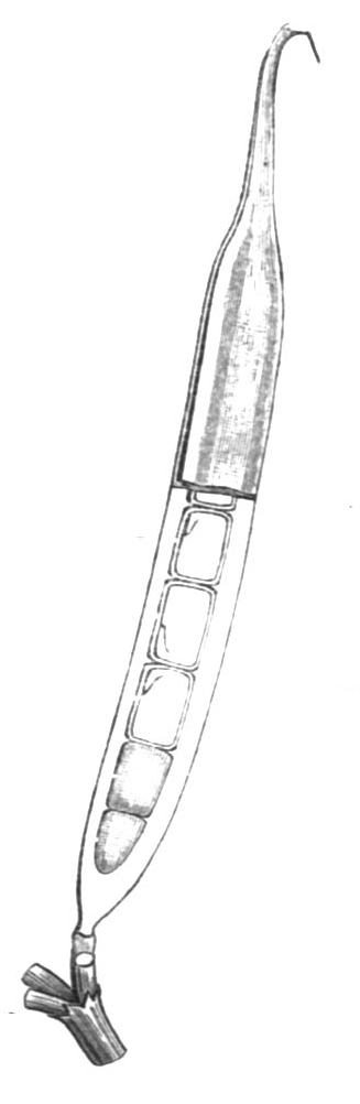 Illustration from book